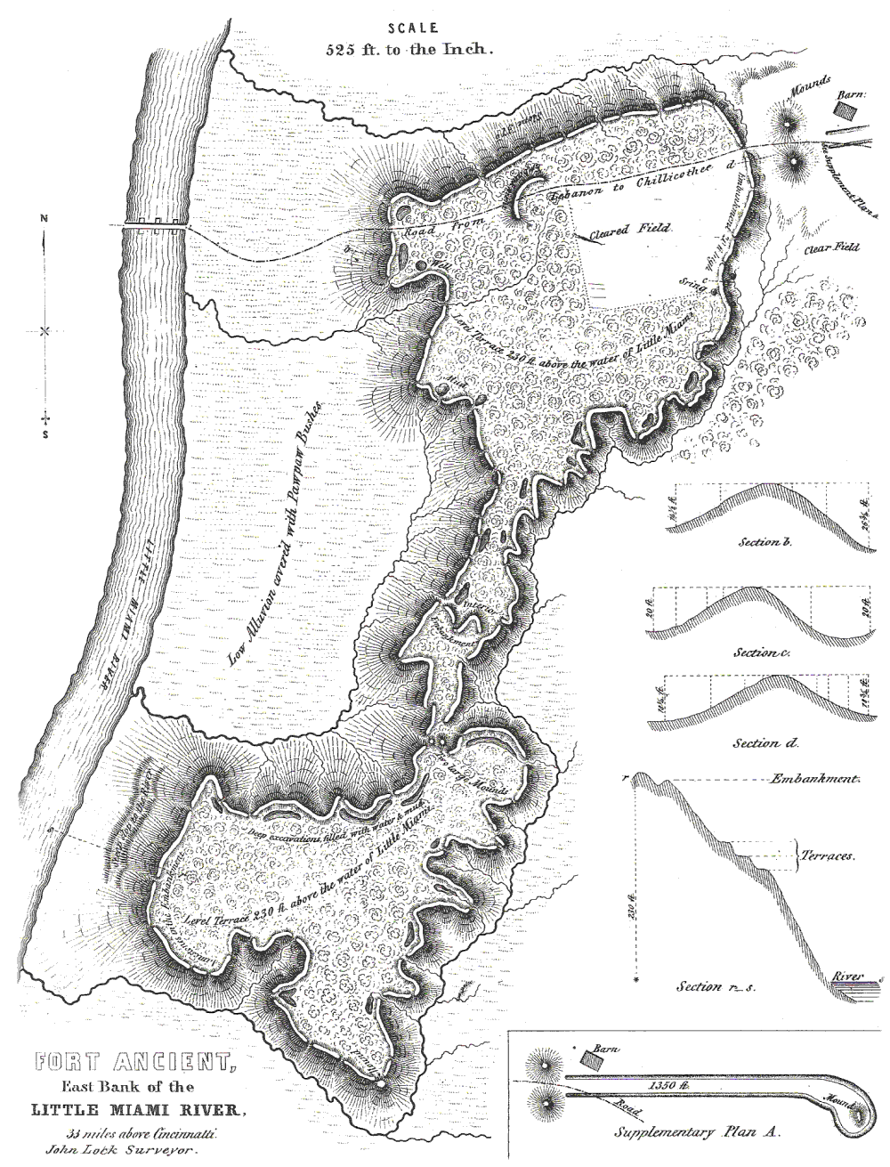 Map of Fort Ancient, Warren County. Surveyed by John Lock, 1843. Published in Ancient Monuments of the Mississippi Valley, Ephraim G. Squier and Edwin H. Davis, 1848.